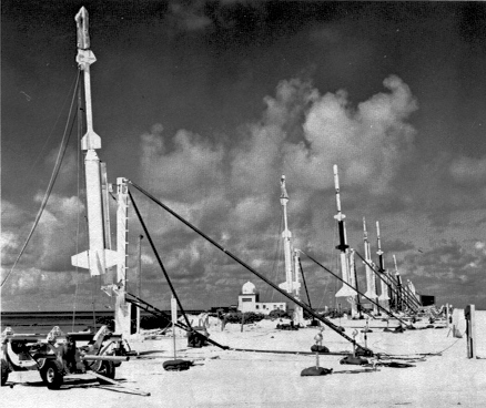 Rockets carrying instrumentation for scientific measurements of Operation Fishbowl high altitude nuclear tests, shown on Johnston Island before liftoff. Photo taken mid-1962. Exact date unknown.